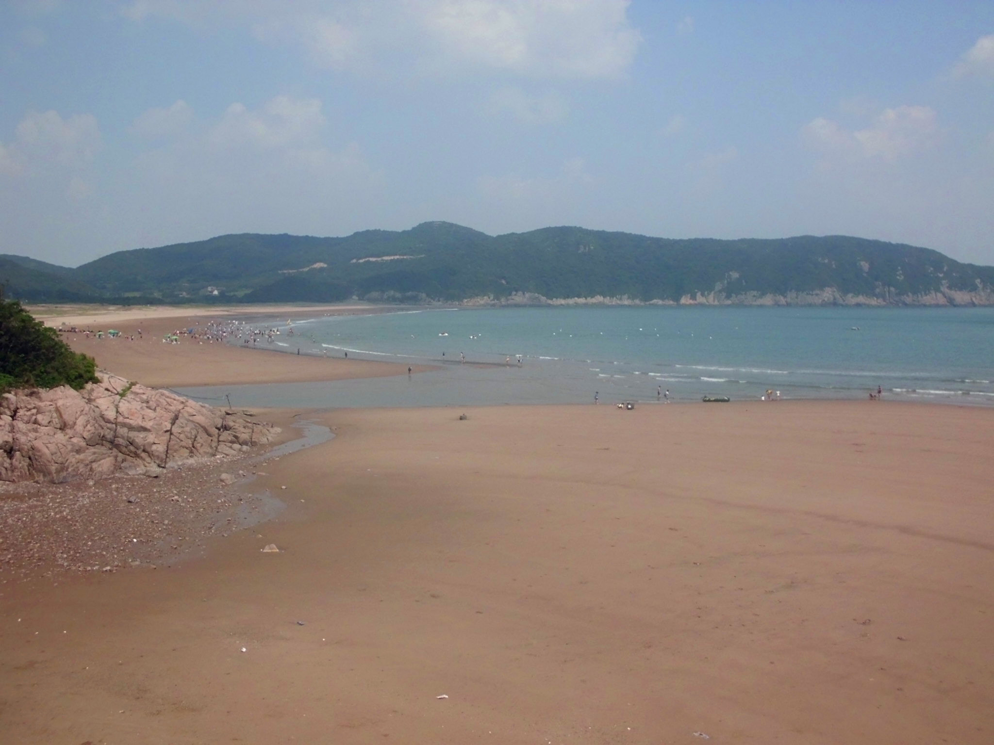 Taohua Island